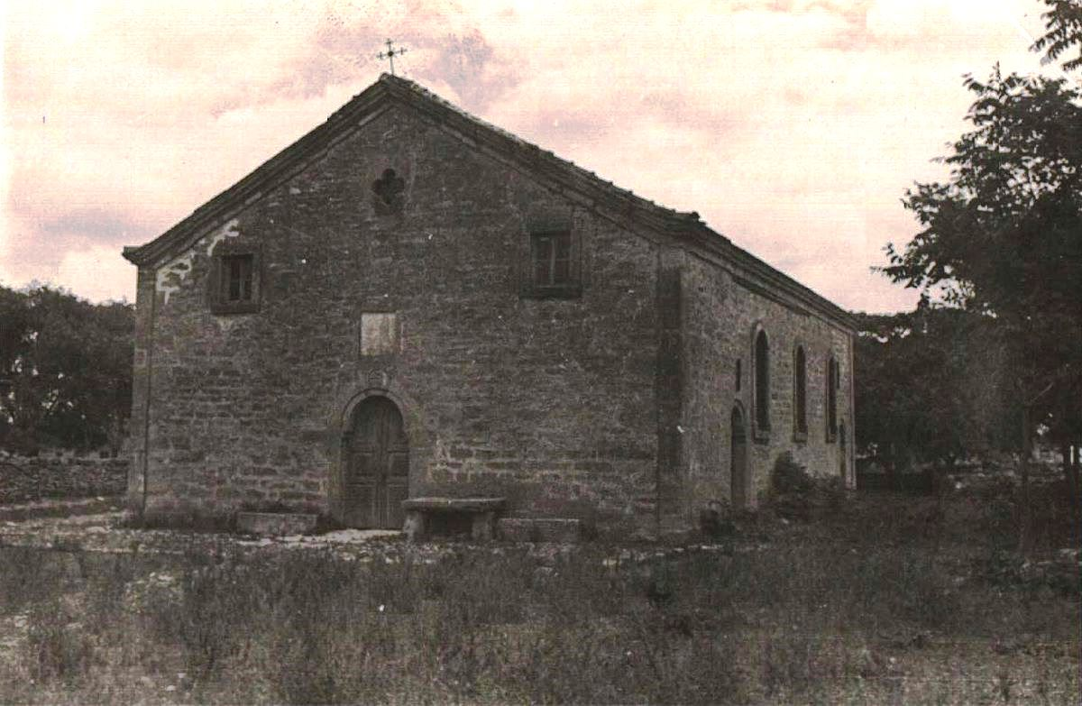 Church in Balgarevo, Bulgaria